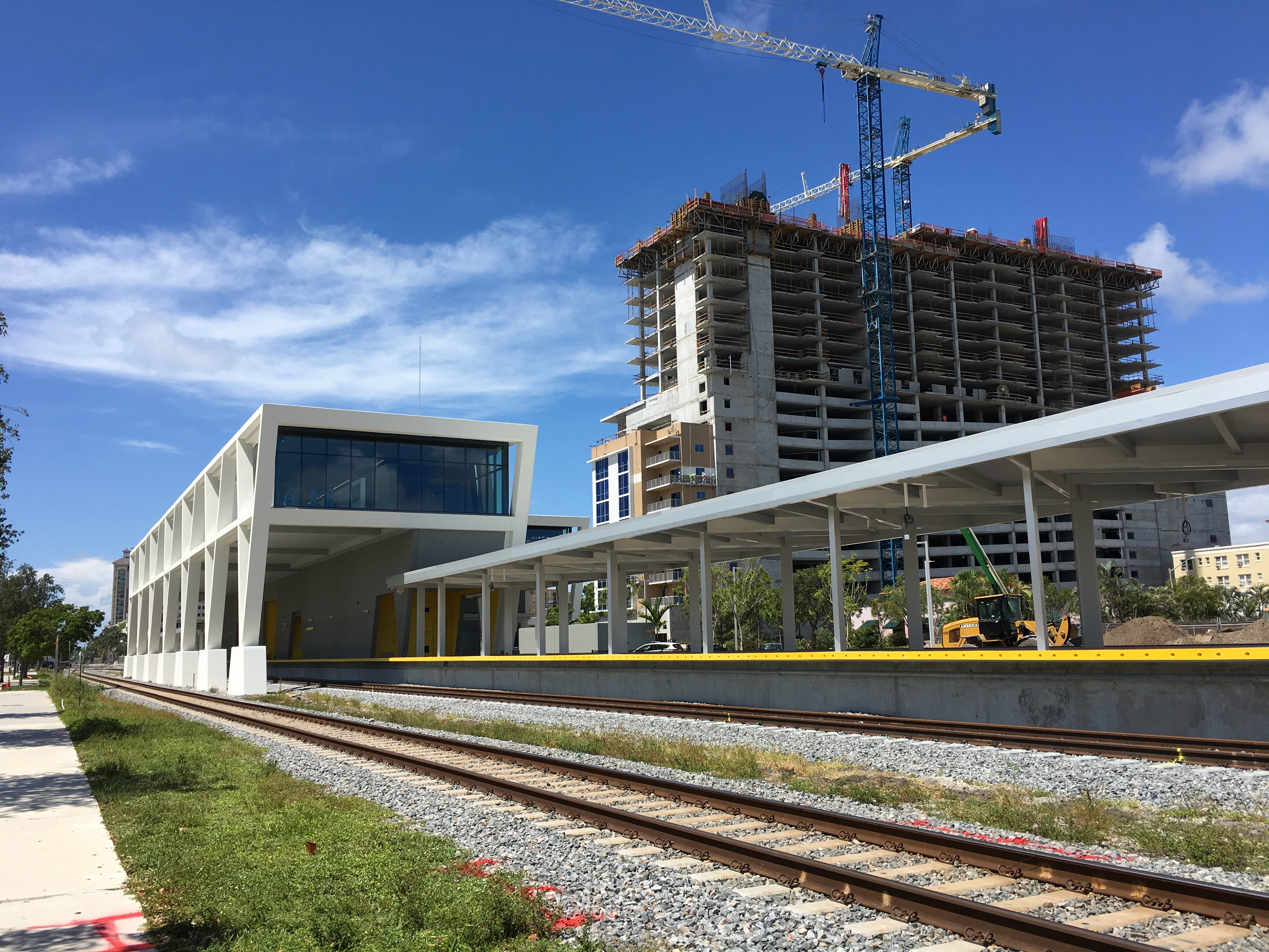 Brightline All Aboard Florida Station West Palm Beach